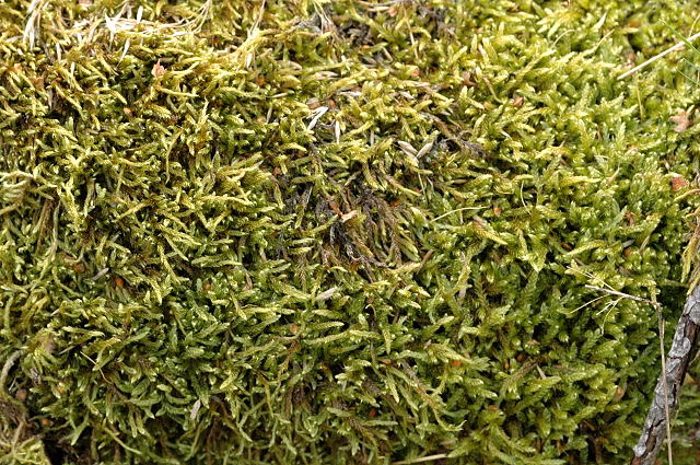 Hypnum jutlandicum in Commanster, Belgian High Ardennes.